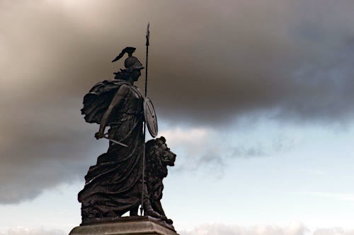 Photo taken by: Angie Muldowney Taken in: March 2005 at The Hoe, Plymouth, United Kingdom